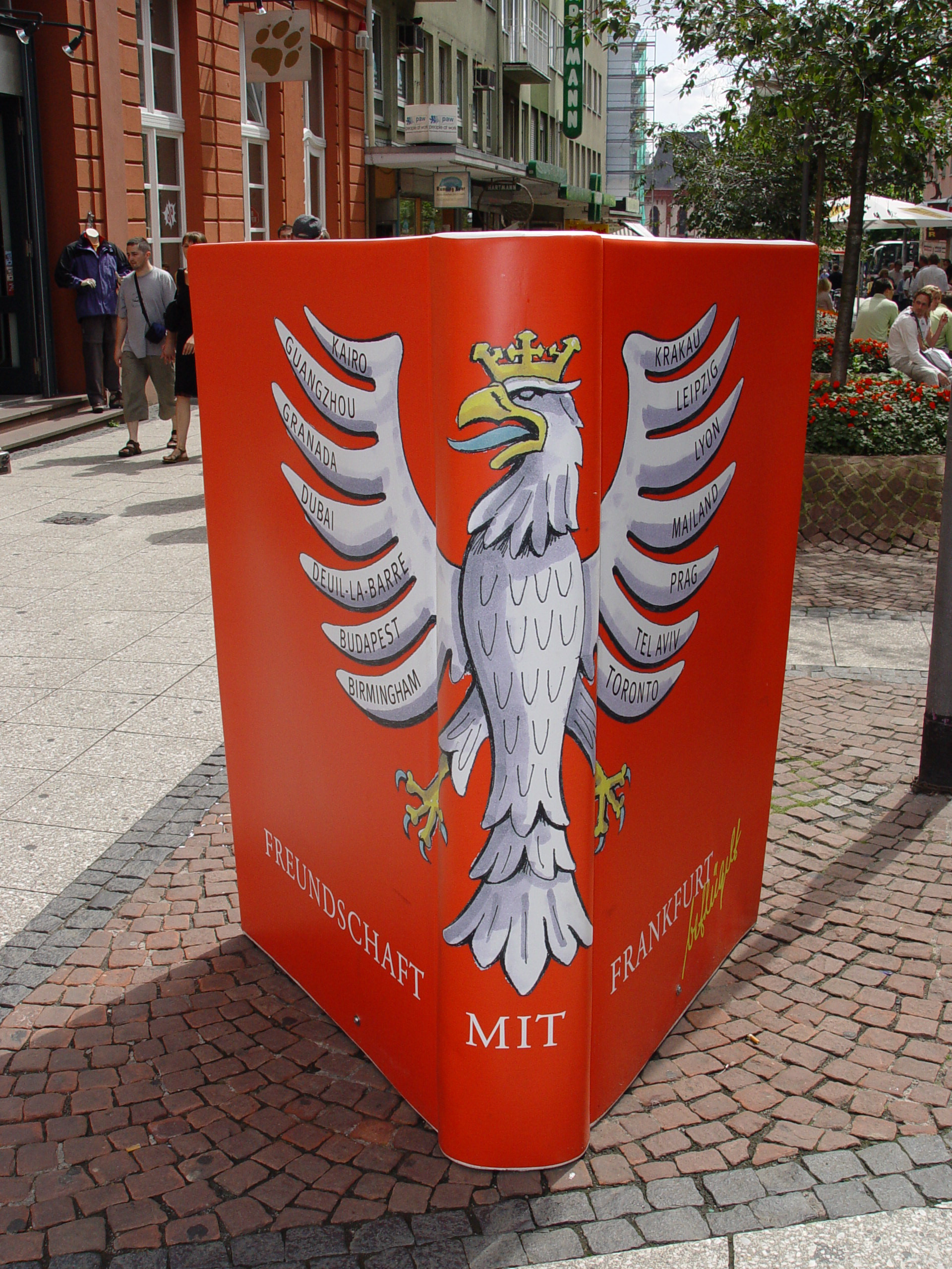 Frankfurt, Germany - Partner Cities